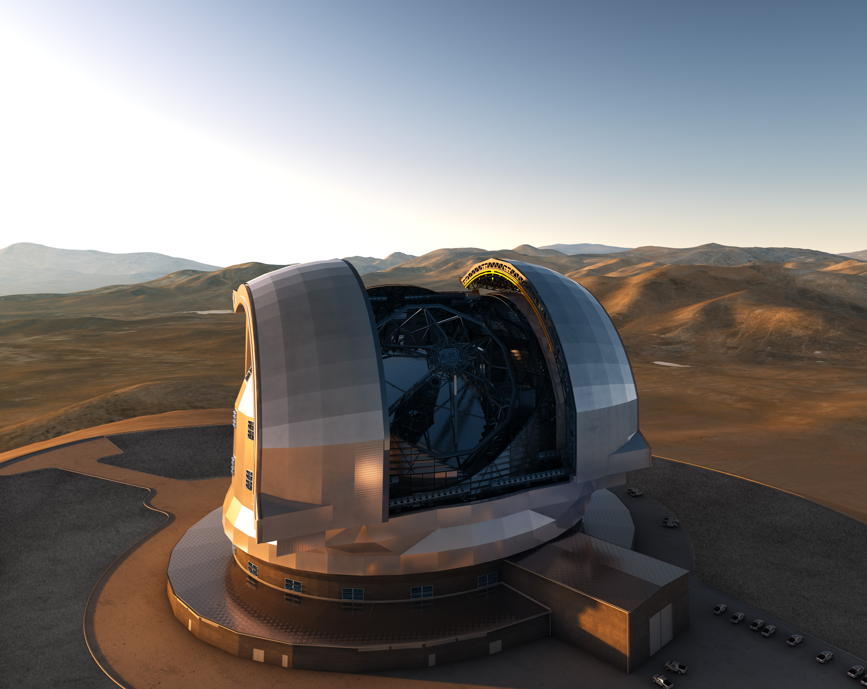 Representatives of Denmark have confirmed that their country will participate in the European Extremely Large Telescope (E-ELT) programme. Twelve of the ESO Member States have now joined the E-ELT programme. Denmark joined the organisation in 1967, as the first new Member State three years after ESO’s foundation. The newly announced investment amounts to 8.5 million euros over the ten-year construction period.